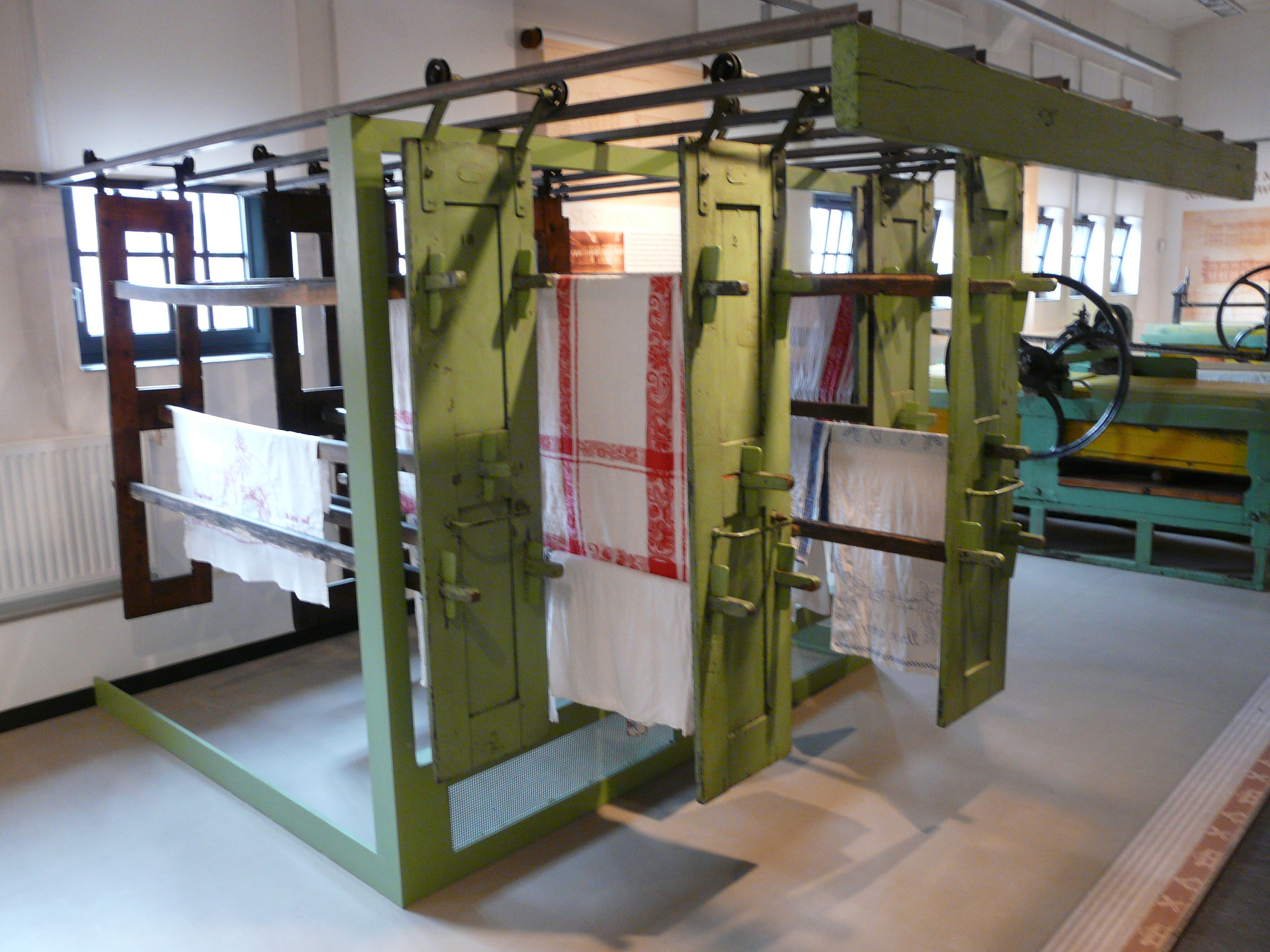 Katowice, Nikiszowiec. Muzeum Historii Katowic. From the collections: "U nos w doma na Nikiszu" (depictions of average households, pics 18-49) and "Woda i mydło najlepsze bielidło" (depictions of communal laundry, pics 5-17).